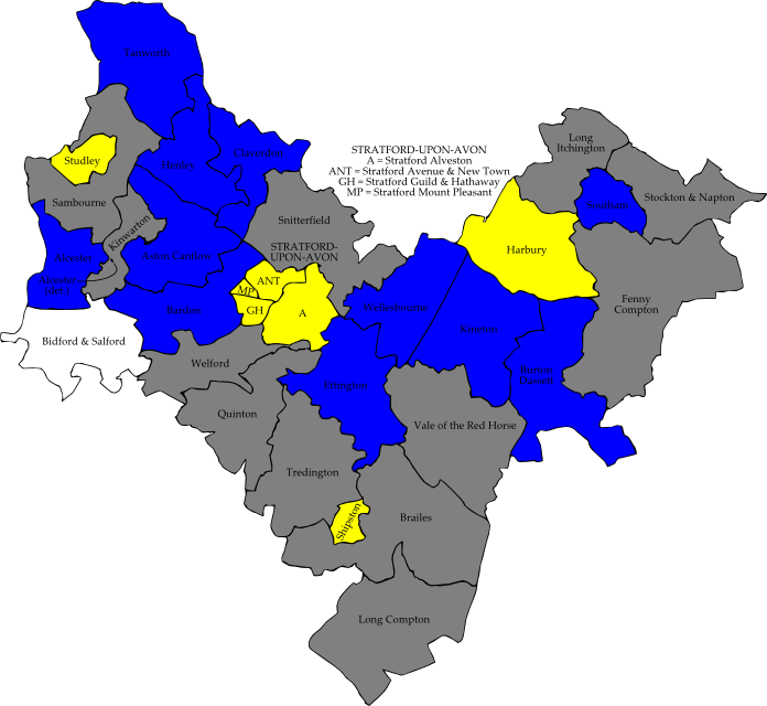 A map of the results of the 2008 Stratford-on-Avon Council election. Colour legend by wards won: Conservative party Liberal Democrats Independent Wards in grey were not contested in 2008.